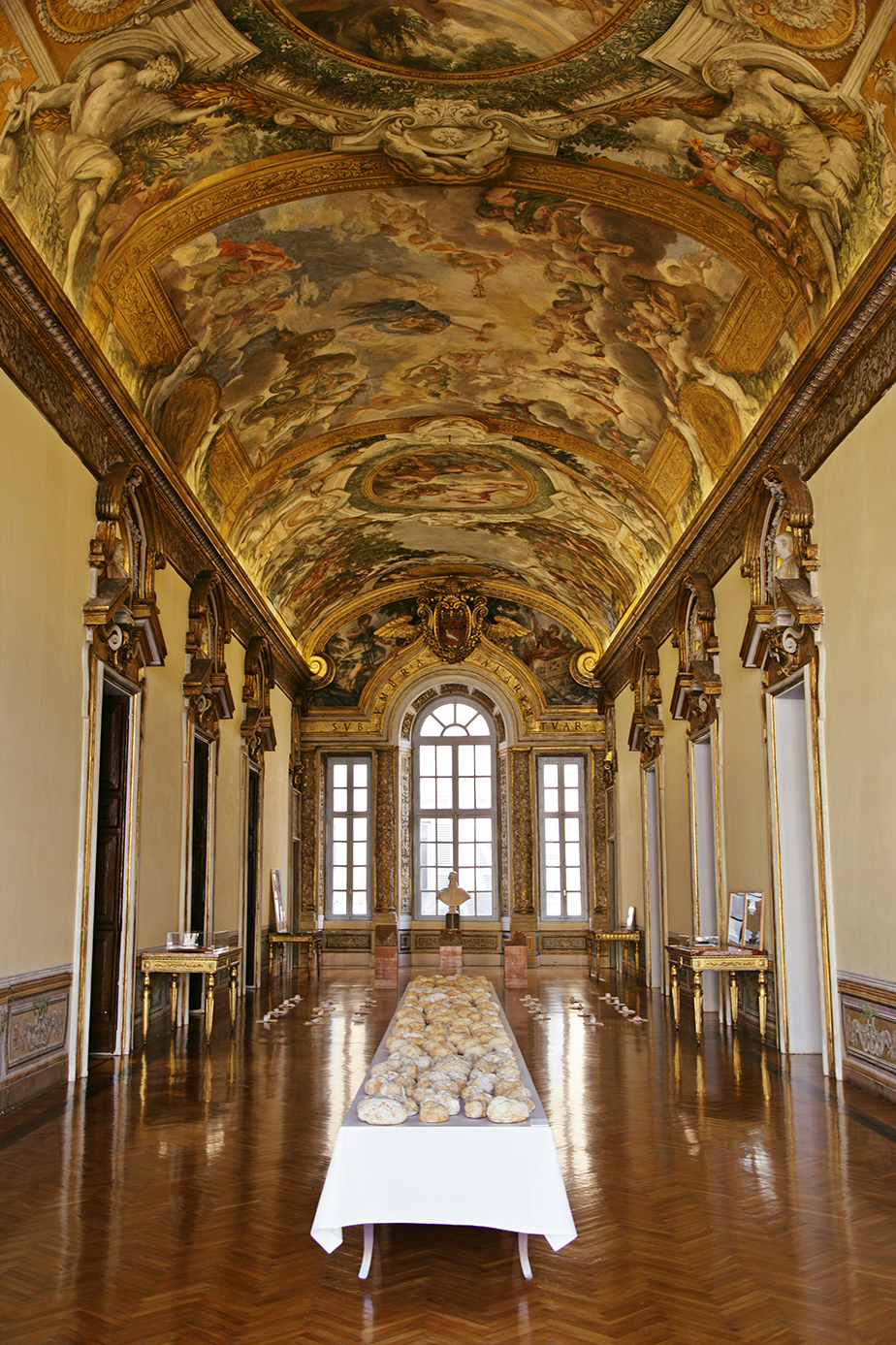 Exhibition's view Lucio Salvatore, Parque Lage (2018) Galleria Cortona Palazzo Pamphilj, Roma